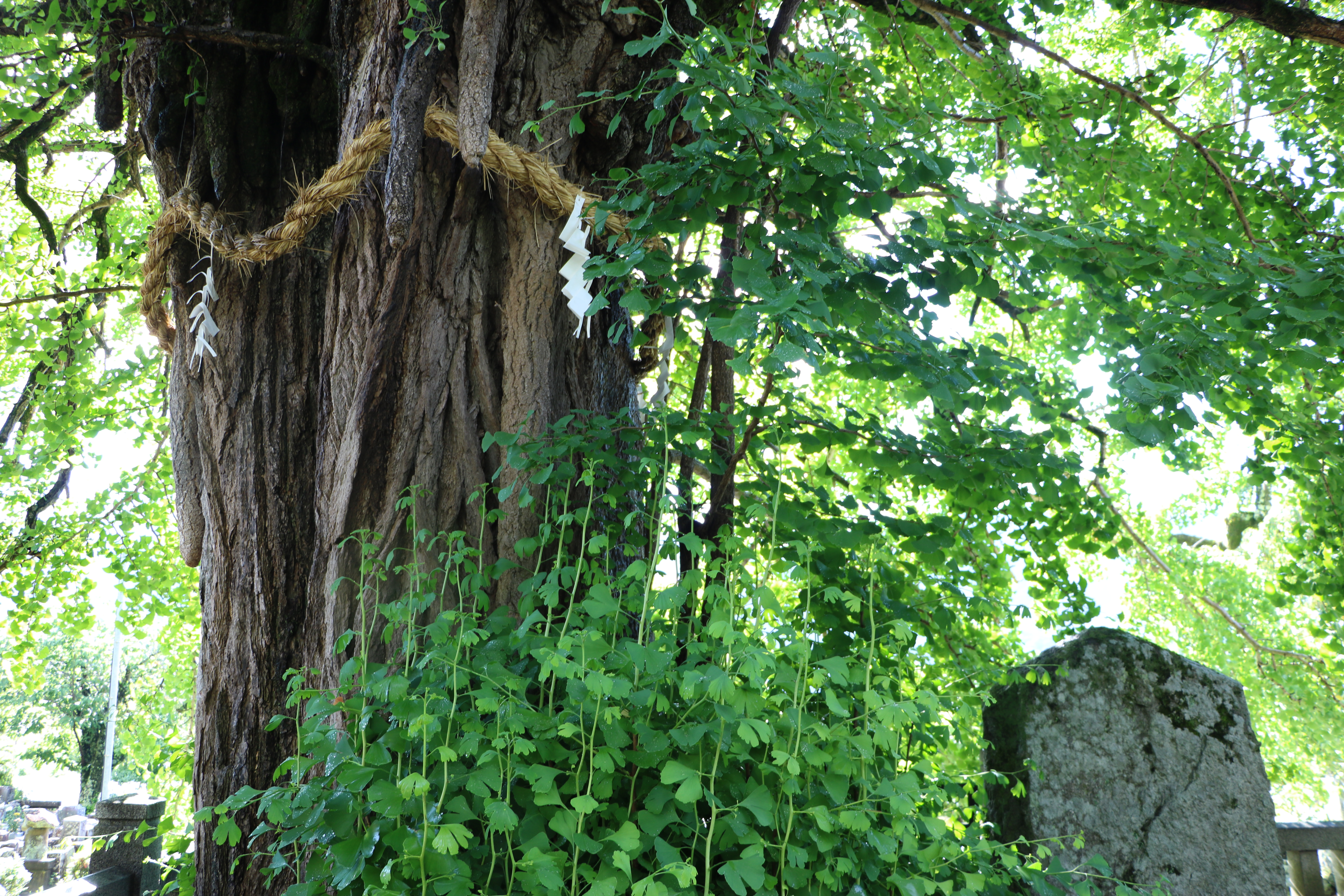 Hongokuji no Ohatsuki Icho. Ginkgo biloba natural monuments in Japan.